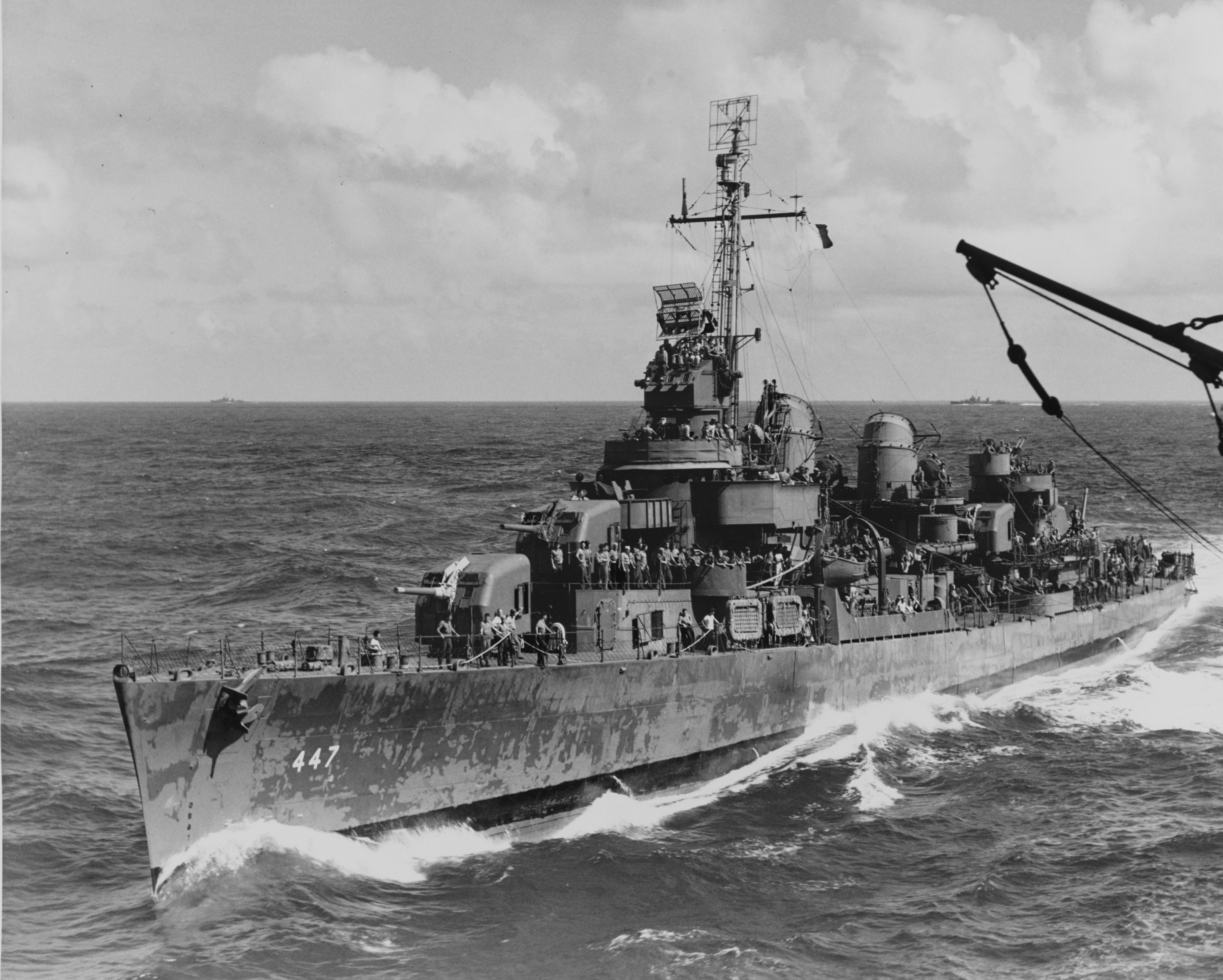 The U.S. Navy destroyer USS Jenkins (DD-447) underway at sea, circa in 1943. Jenkins is coming alongside of another ship with much of the crew observing. Note that she still carries the early SC radar and has not yet been fitted with the twin 40mm mounts outboard of the second stack.